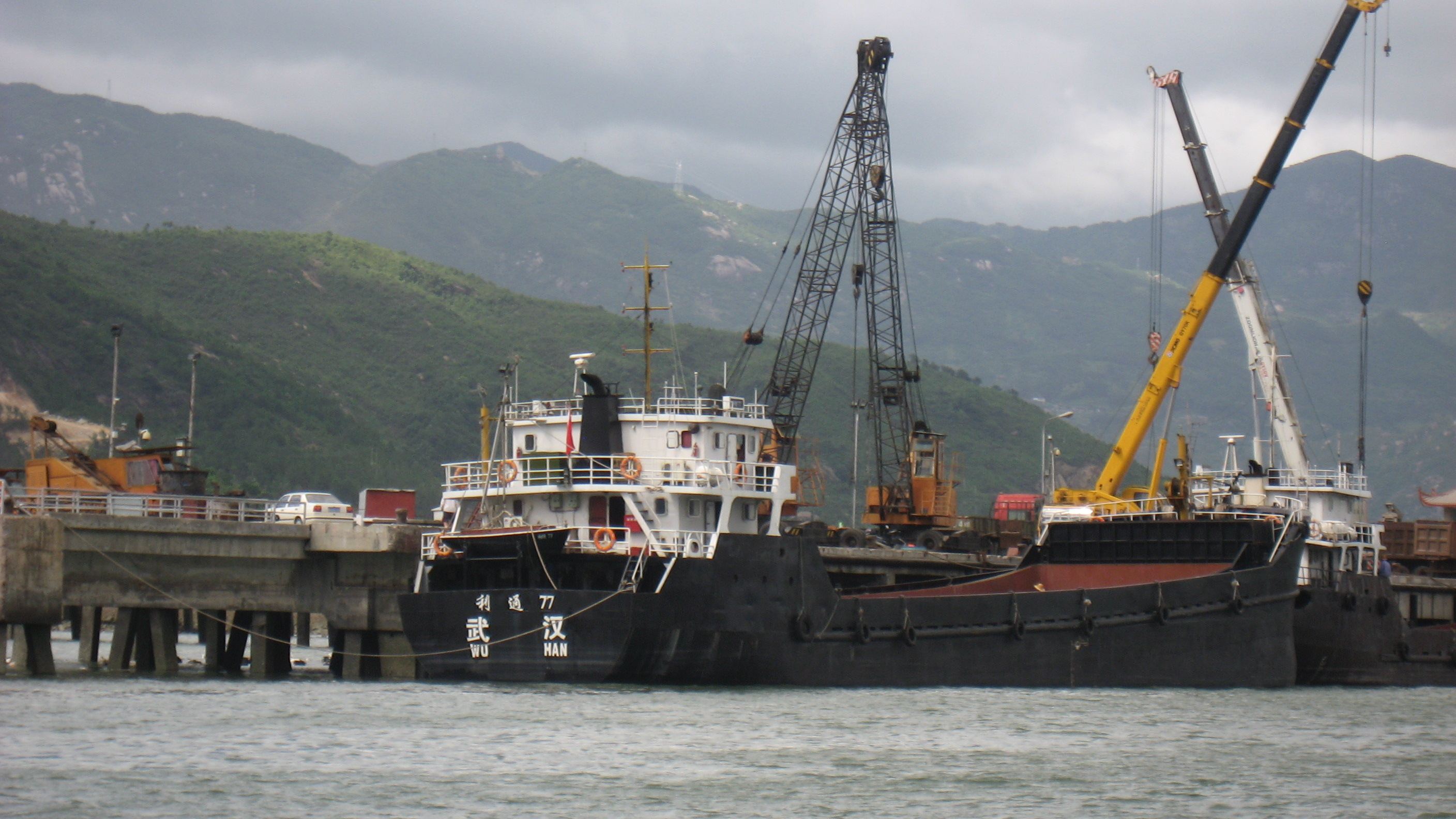 The dock in Luoyuan Bay of Fuzhou, China. The construction of a new industrial park is still going on there.